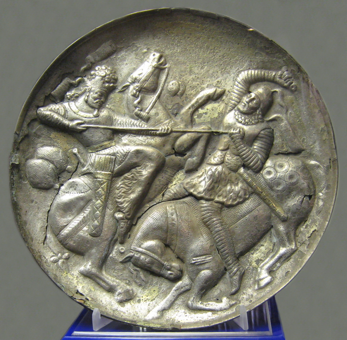 Probably fake Tabriz Sasanian Plate {see discussion page}, improved for background and perspective